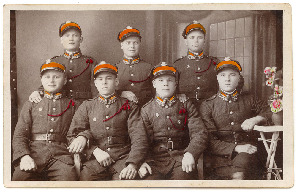 Group of solfiers from 23 Pulk Ulanow. Poland. 1933 A.D.